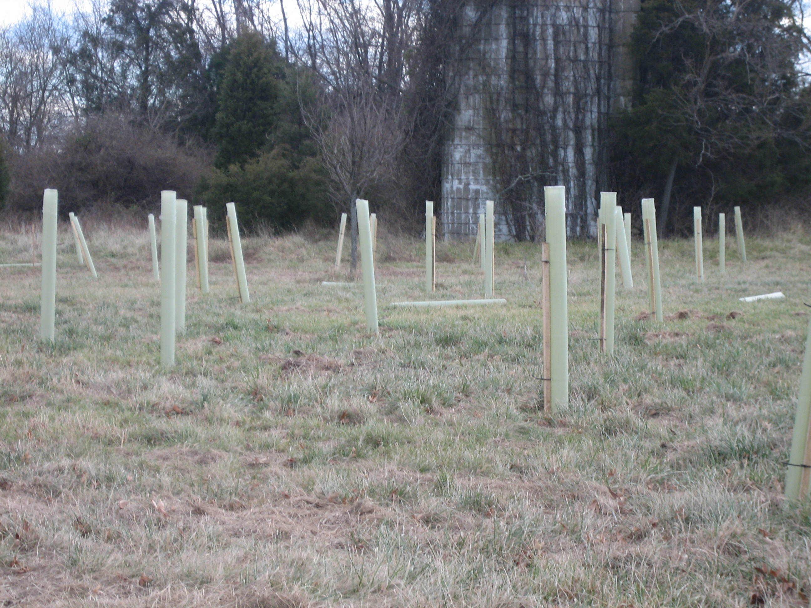 An image of some of the trees planted by volunteers at Rachel Carson Middle School.